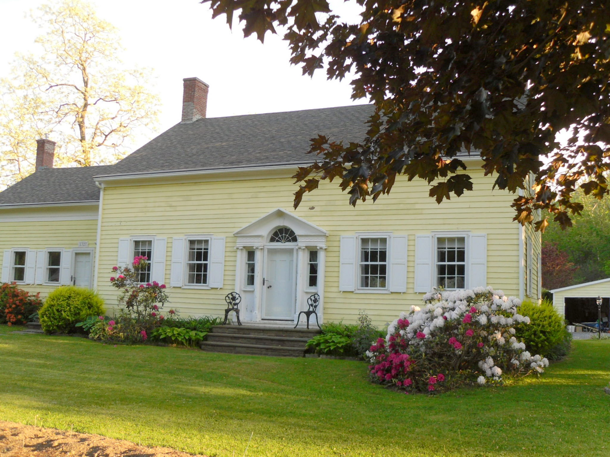 Coeymans Hollow, New York